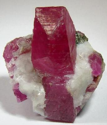 Corundum Locality: Jegdalek (Jagdalek; Jagdalak; Jagdalik) Ruby Mine, Sorobi District, Kabol (Kabul) Province, Afghanistan (Locality at ) Size: thumbnail, 1.7 x 1.7 x 1.5 cm Corundum var. Ruby The color and gemminess of this ruby are nonpareil, and the luster is very good. It has pigeon-blood red color and great translucency. Wendell regarded this as the best thumbnail he had seen of this style/locality. Ex. Wendell E. Wilson Collection.